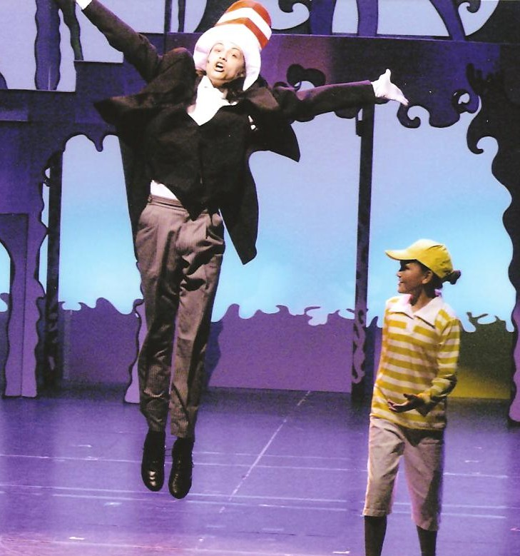 Nathan Norton, actor, performs as The Cat in the Hat in Seussical the Musical.